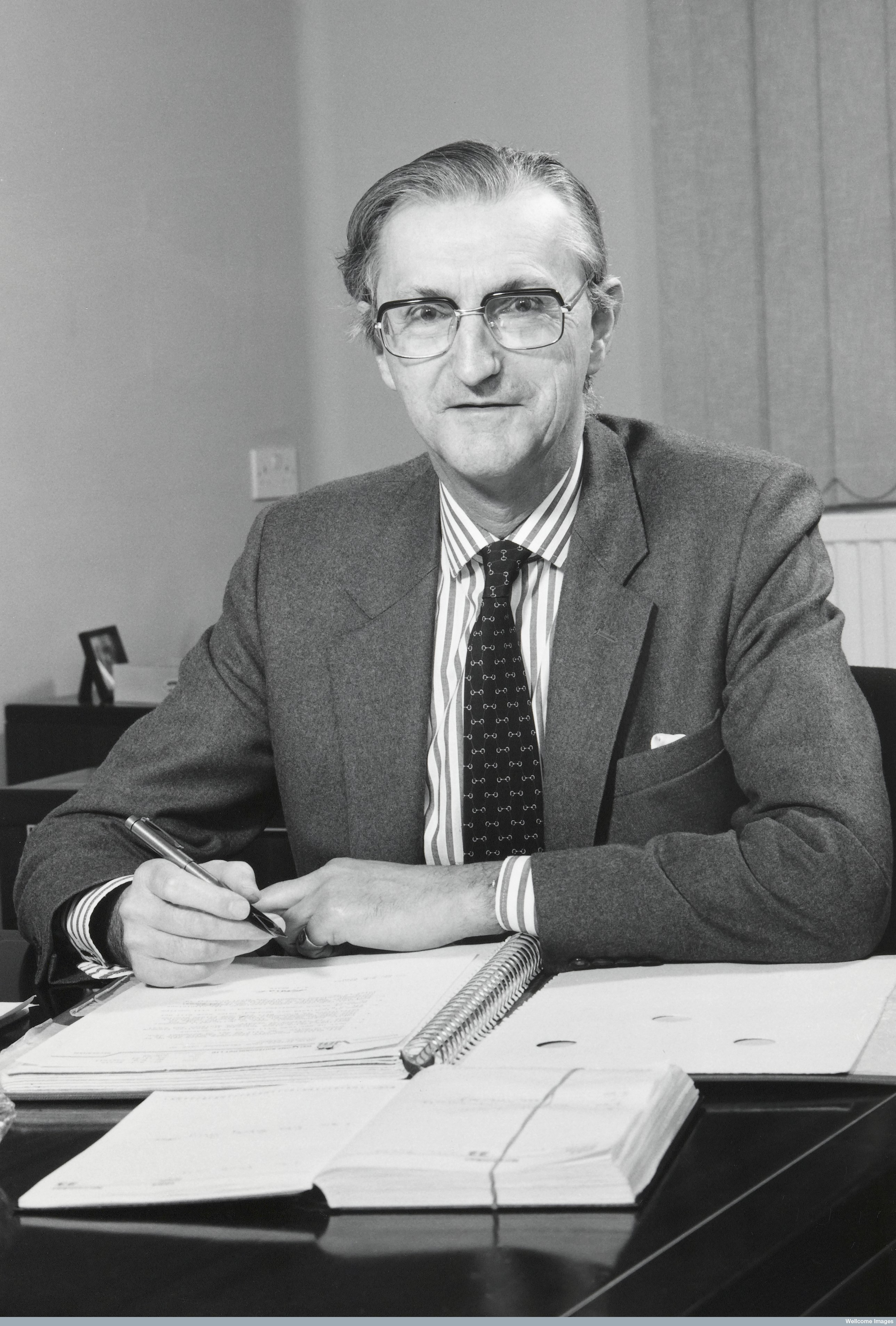 Taken by the Wellcome Trust